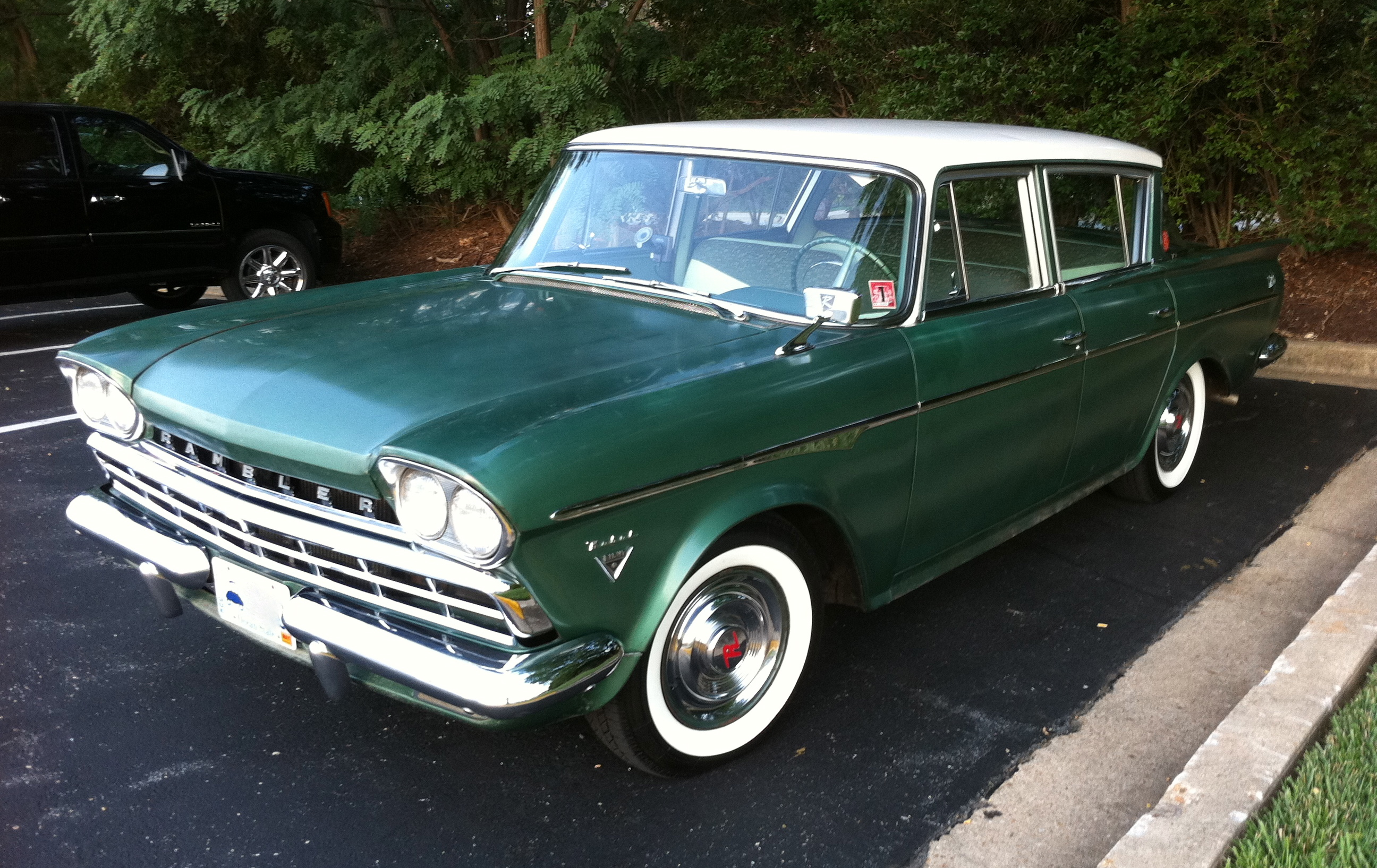 1960 Rambler Rebel V8. A family-sized 4-door sedan built by American Motors Corporation (AMC).